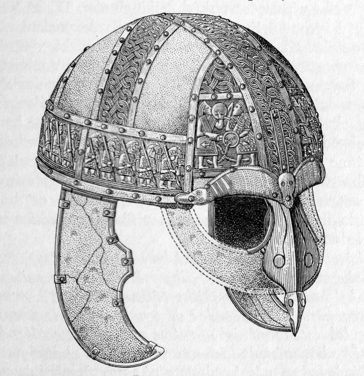 Drawing of an early medieval helmet found in Vendel, Sweden.